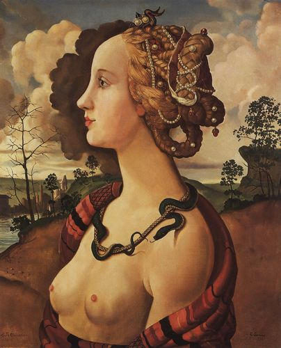 Konstantin Andrejewitsch Somow: Simonetta Vespucci, Ashmolean Museum, Oxford, England